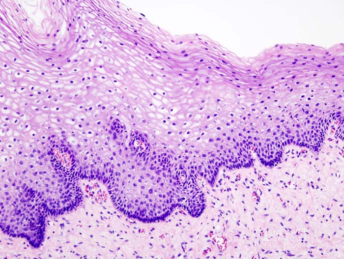 Histopathologic image of normal nonkeratinizing cervical epithelium. H & E stain.